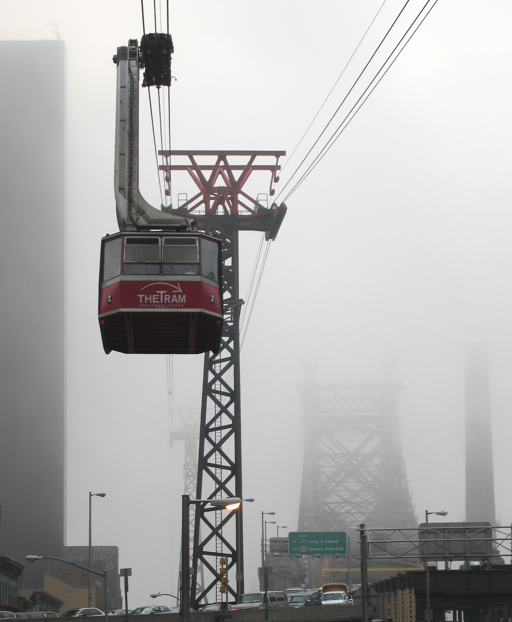 The Roosevelt Island tram arrives at its Manhattan terminal on a foggy morning.